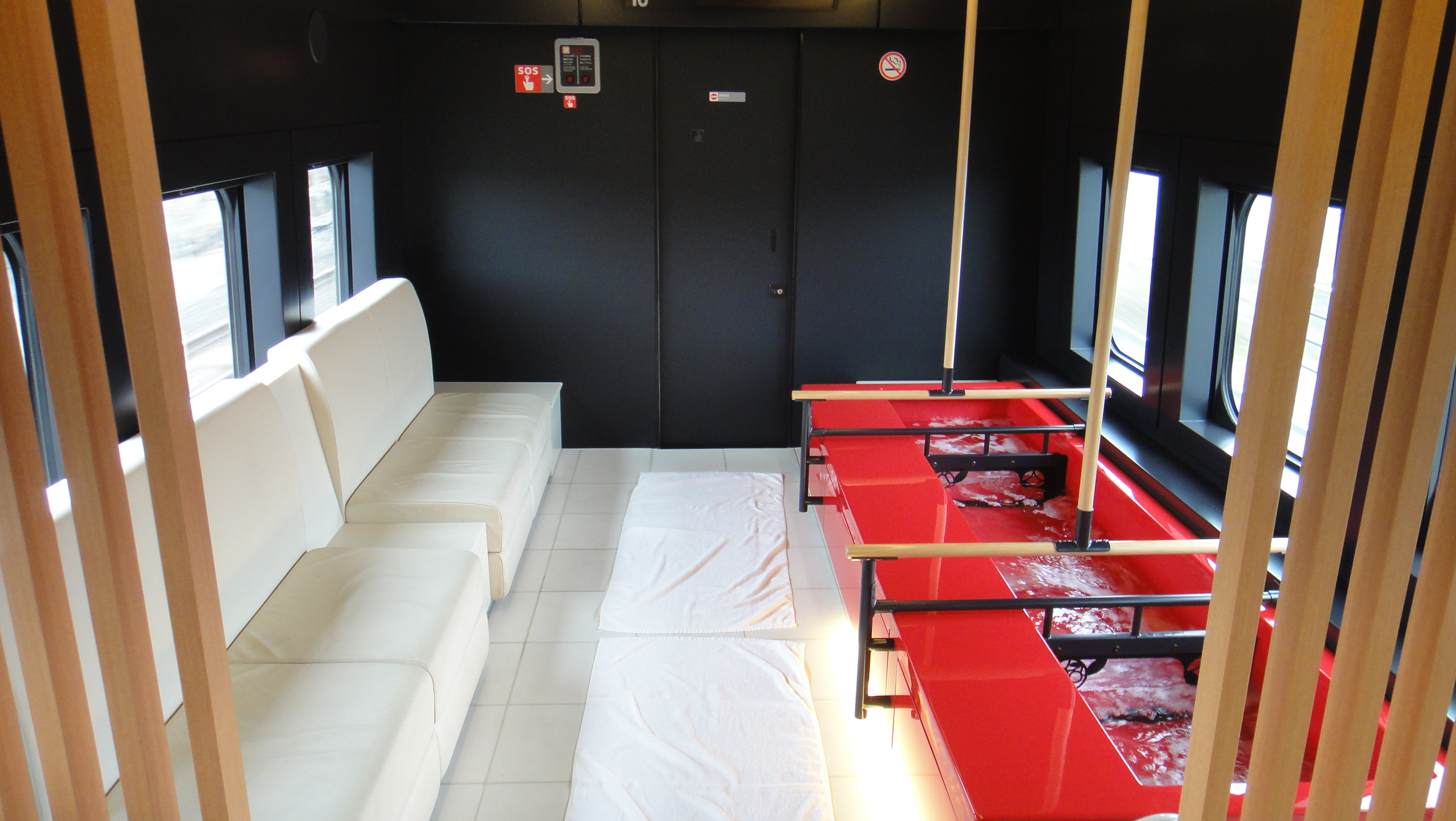 The ashiyu footbaths inside car 16 of the JR East E3-700 series Toreiyu trainset